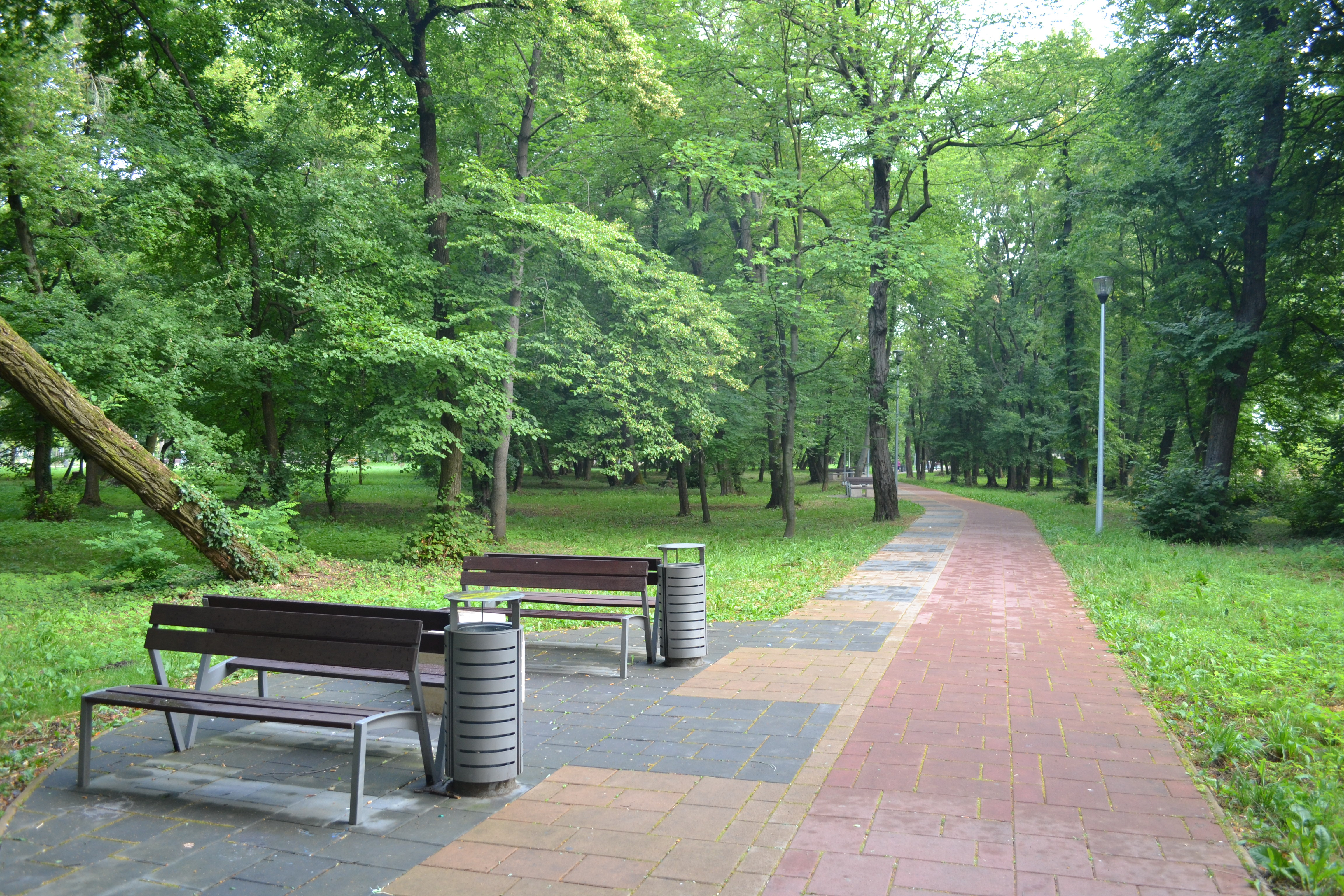 City Park in Fiľakovo